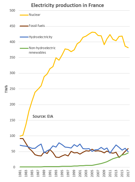 France Electricity production 1981-2017 (EIA data - Excel graph)